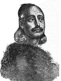 Markos Botsaris